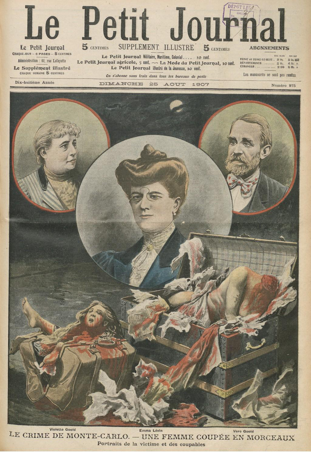 Cover of French Journal Le Petit Journal, No. 875 from August 25, 1907. About the murder case around Vere St. Leger Goold (1853-1907), Irish tennis player. Goold was later convicted of murder and sent to Devil's Island, French Guyana.